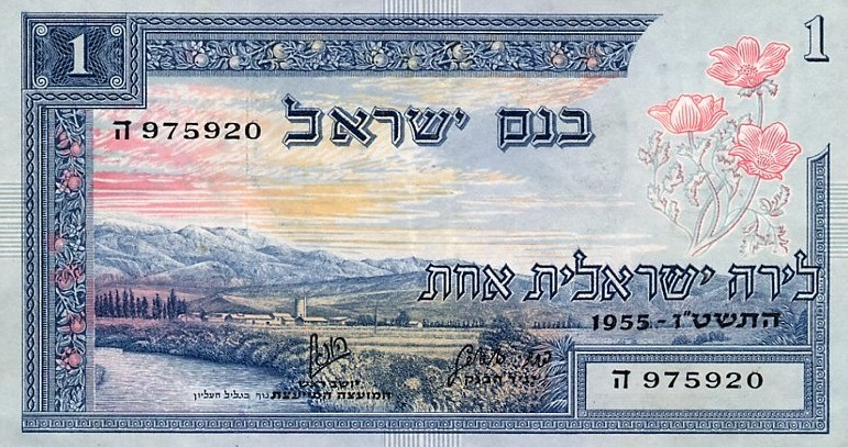 Obverse side of a 1 Israeli Lira bill, first series (1955)